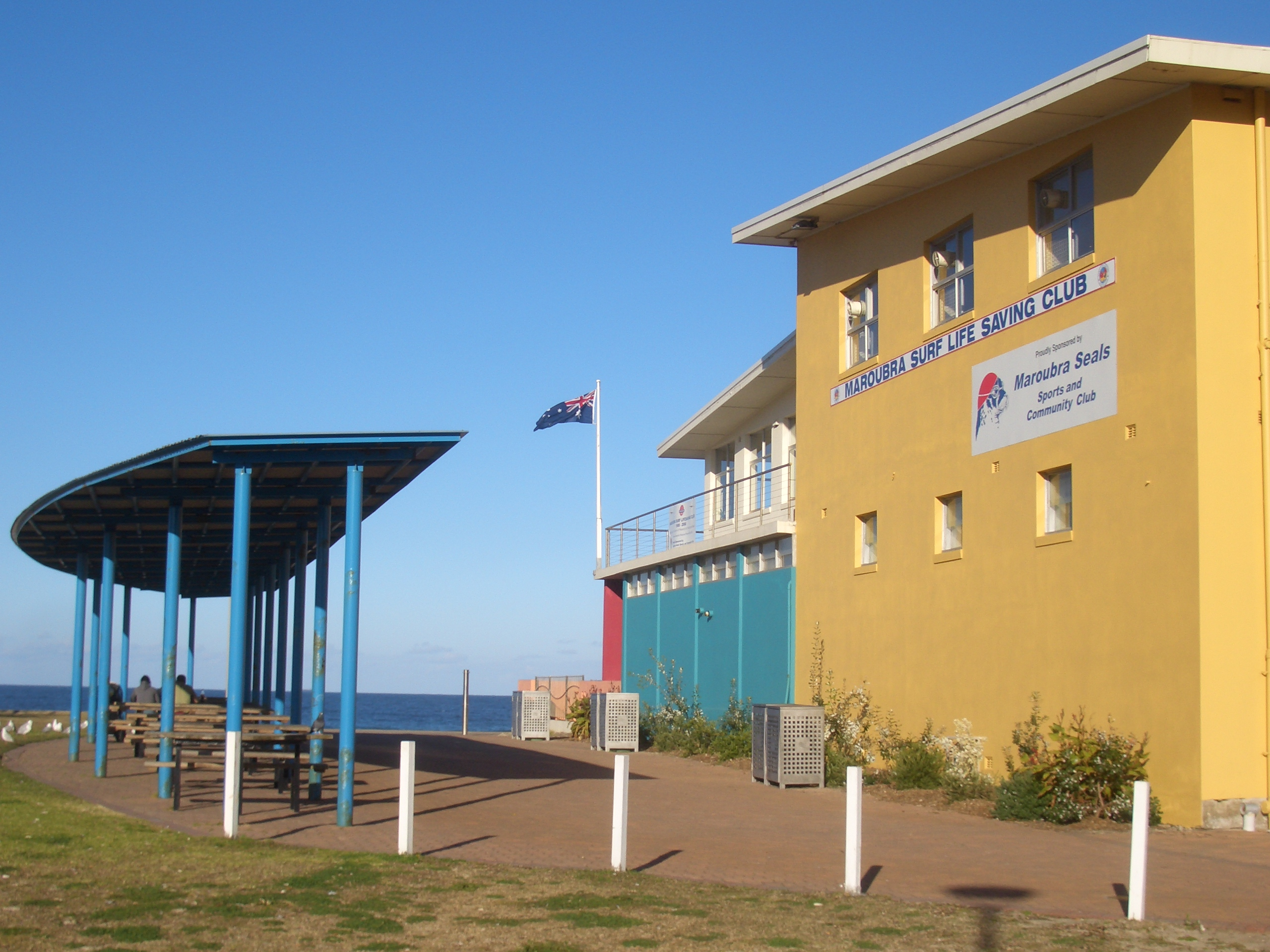 Maroubra_Surf_Life_Saving_Club, Maroubra Beach